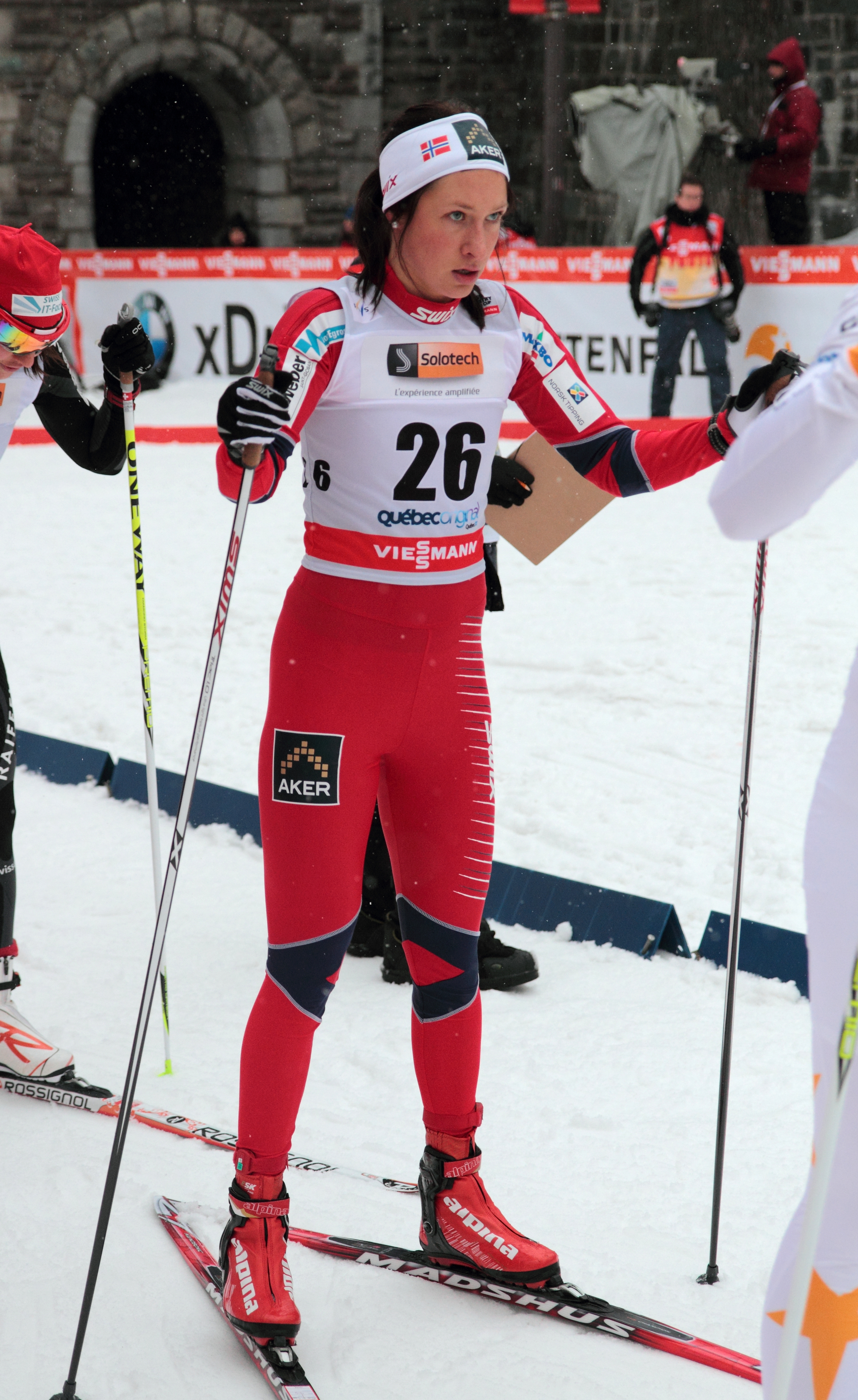 Maria Nysted Groenvoll, FIS Cross-Country World Cup 2012, Quebec, Canada.